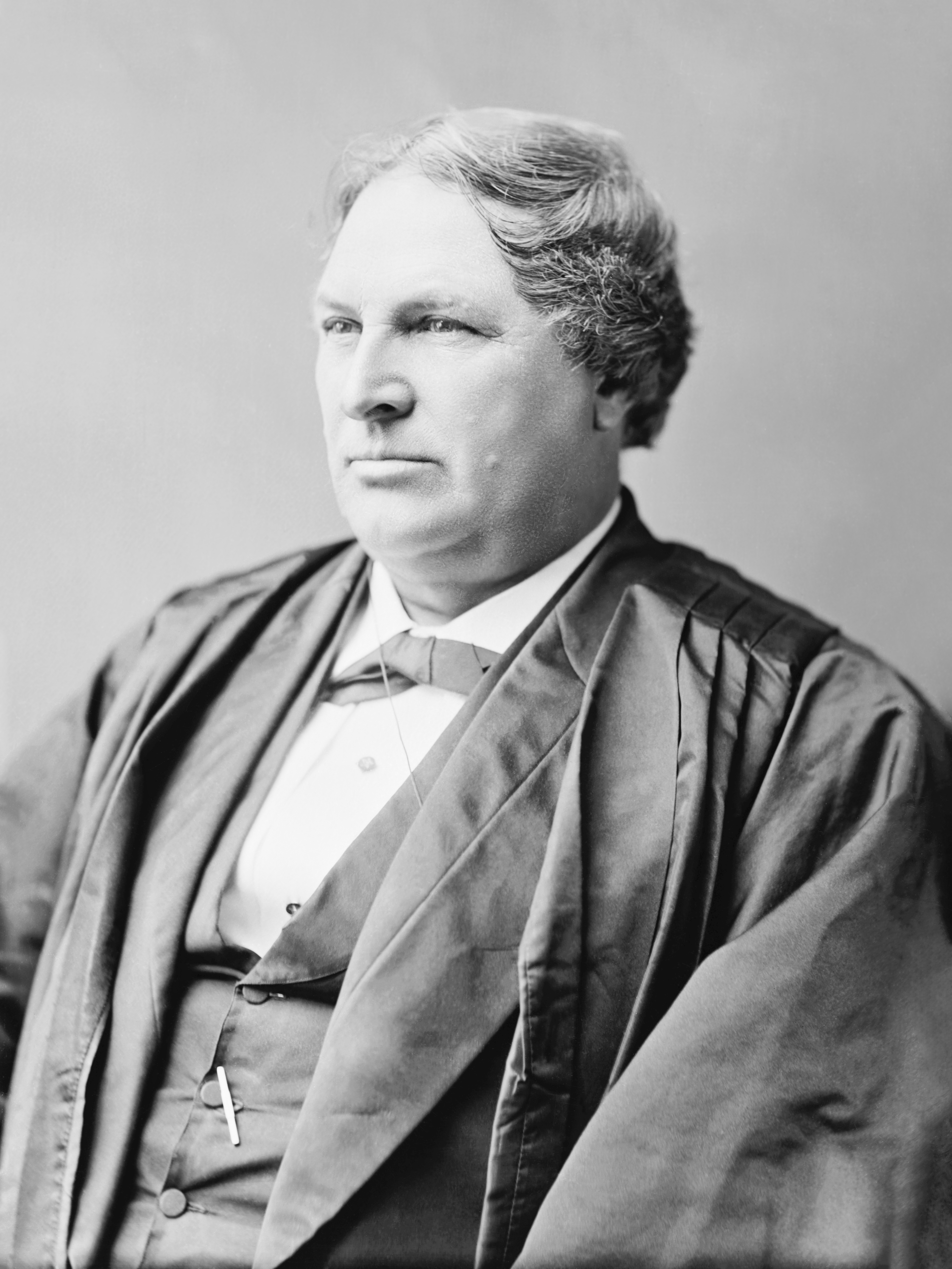 Samuel Freeman Miller. Library of Congress description: "Miller, Judge S.F. (Supreme Court)".